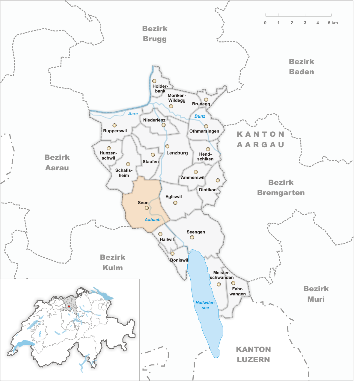 Municipality Seon